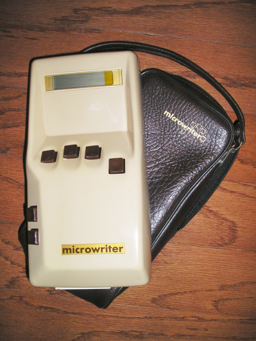 A Microwriter MW4 hand-held word-processor circa 1980. (Image by Steve Baker who releases it under GNU Free Documentation License).